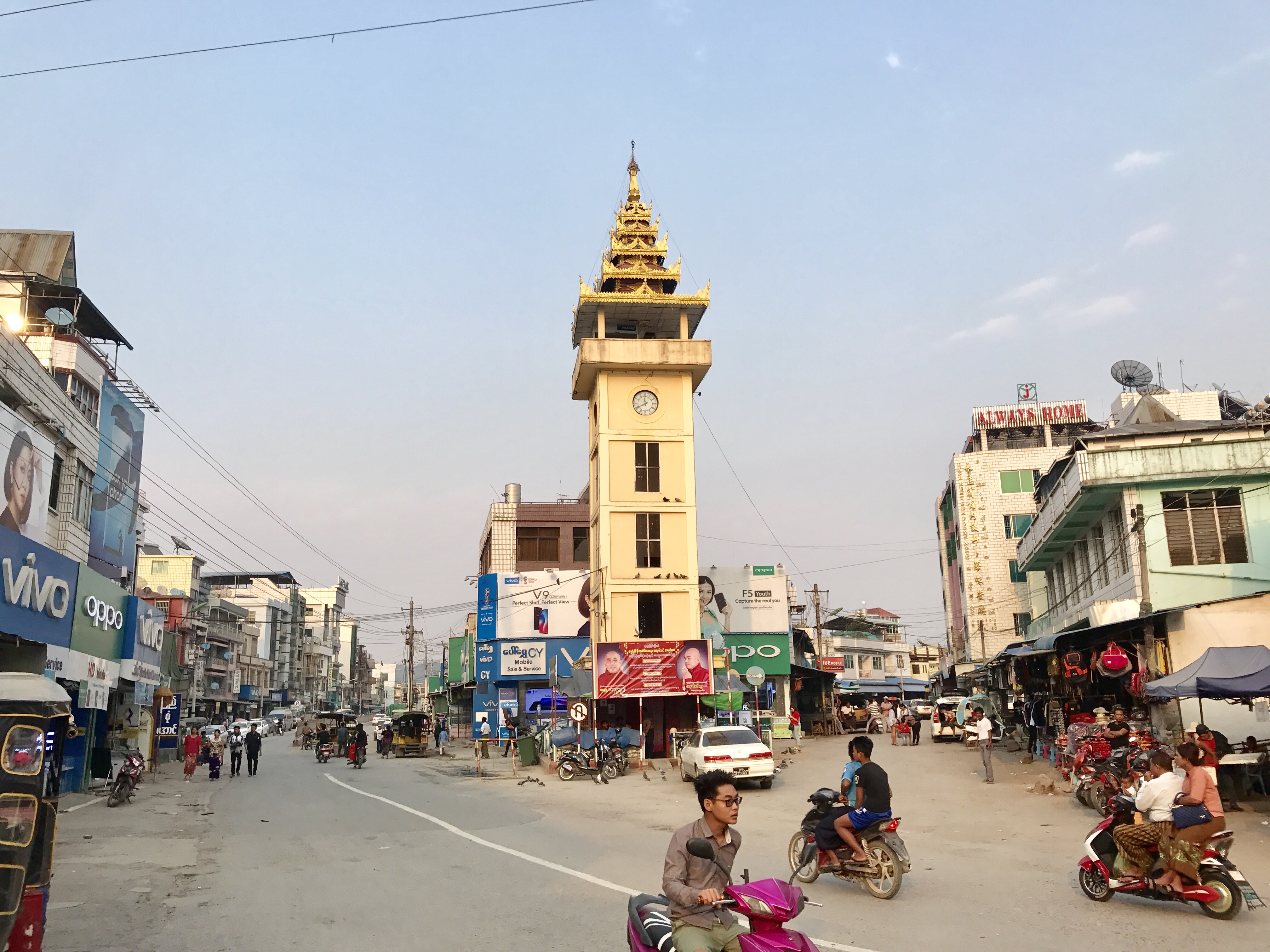 Downtown Muse